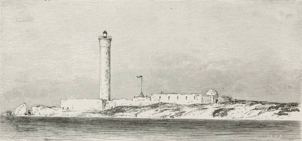 A lighthouse on the shore of Alexandria.